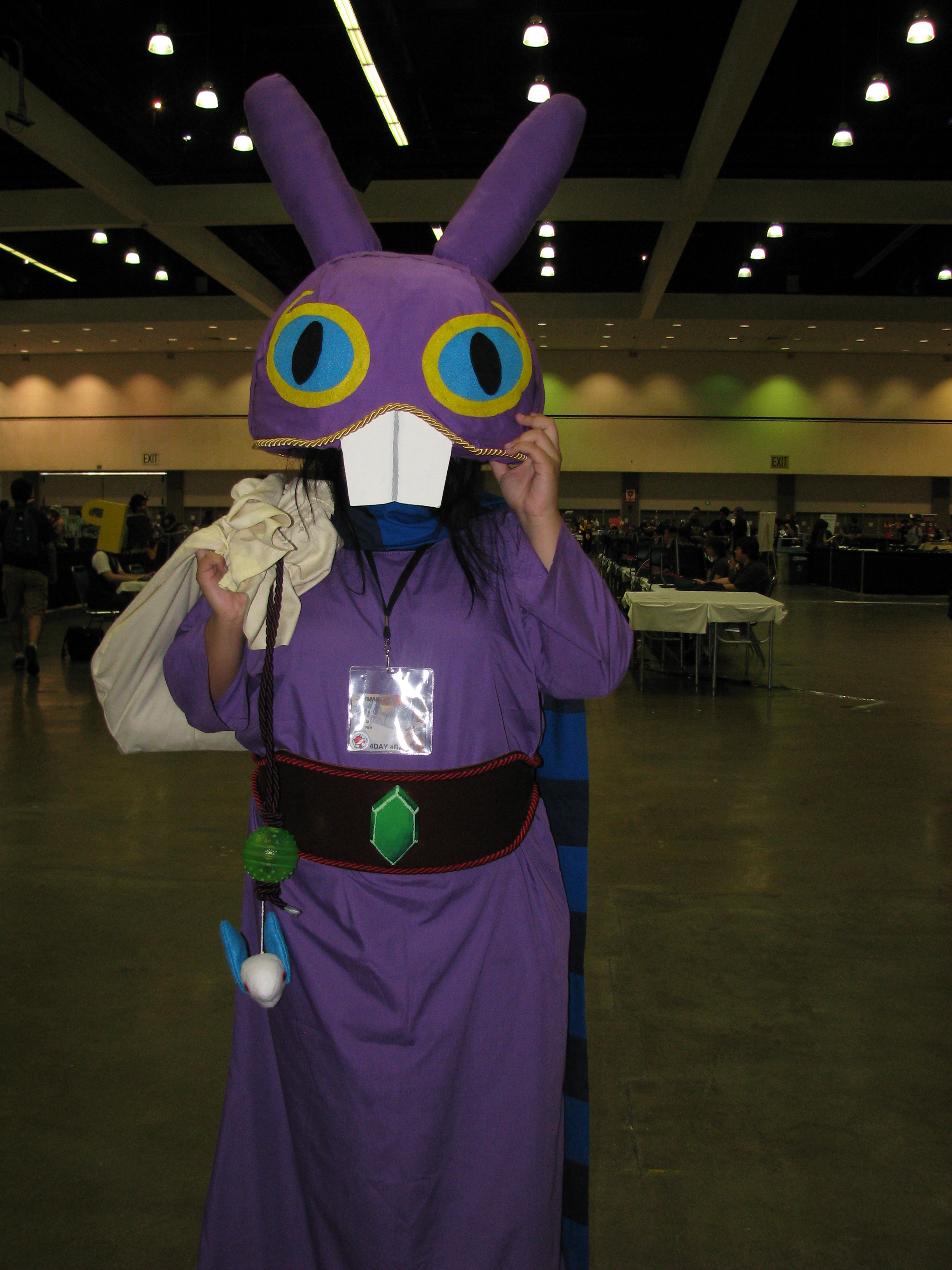 A Ravio from The Legend of Zelda: A Link Between Worlds cosplay.